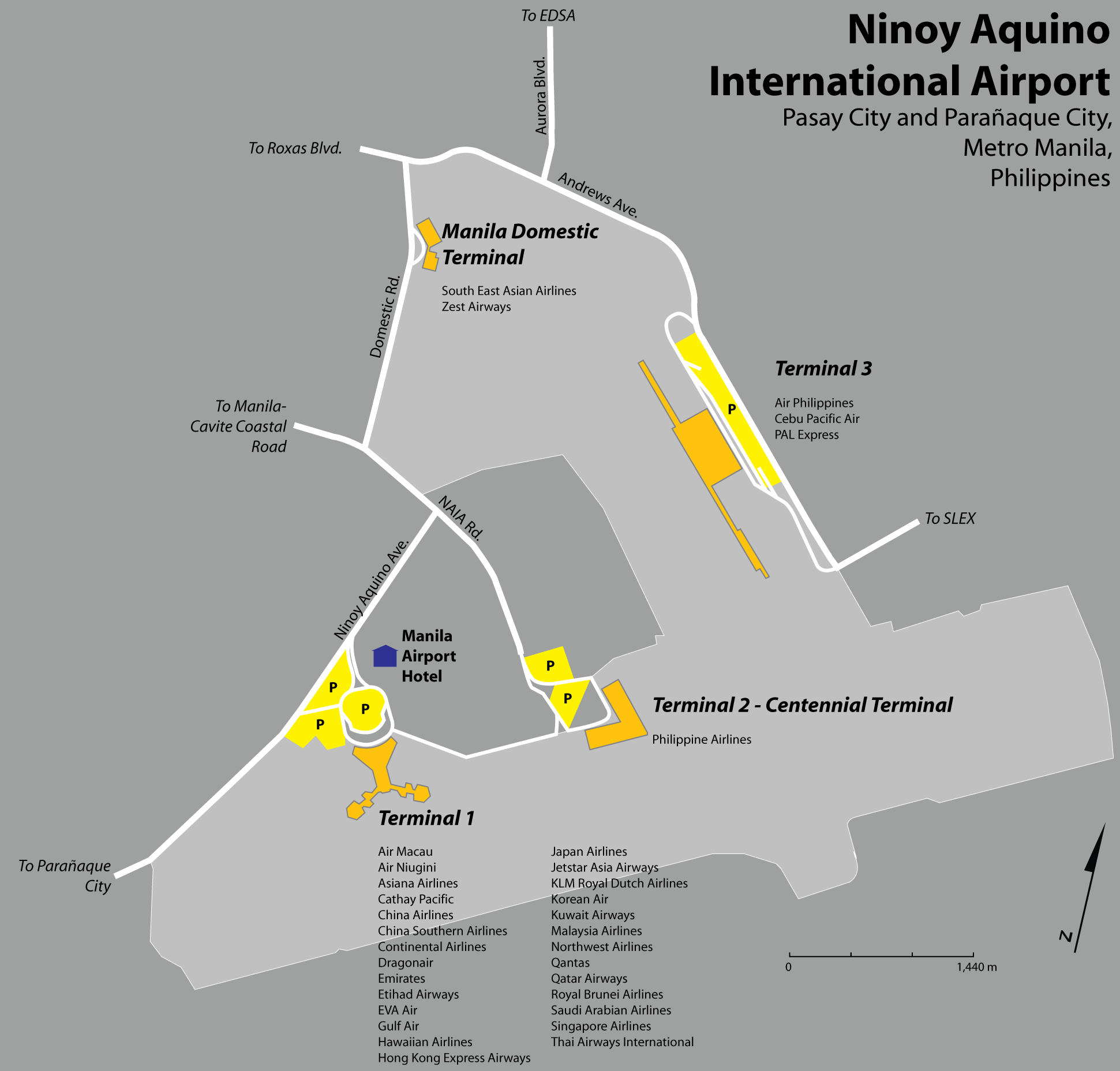 Map of Ninoy Aquino International Airport